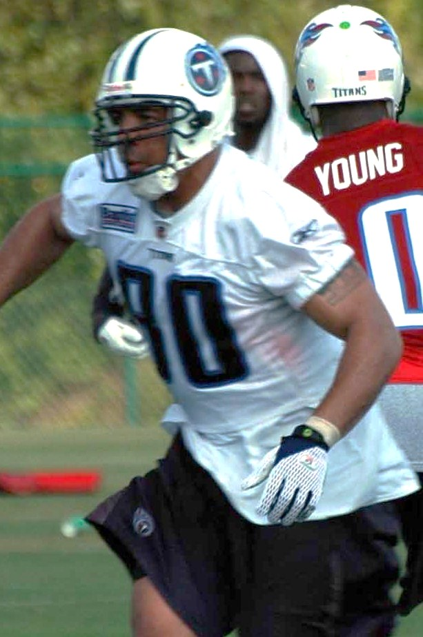 Bo Scaife, tight end of Tennessee Titans, at training camp in July 2008.